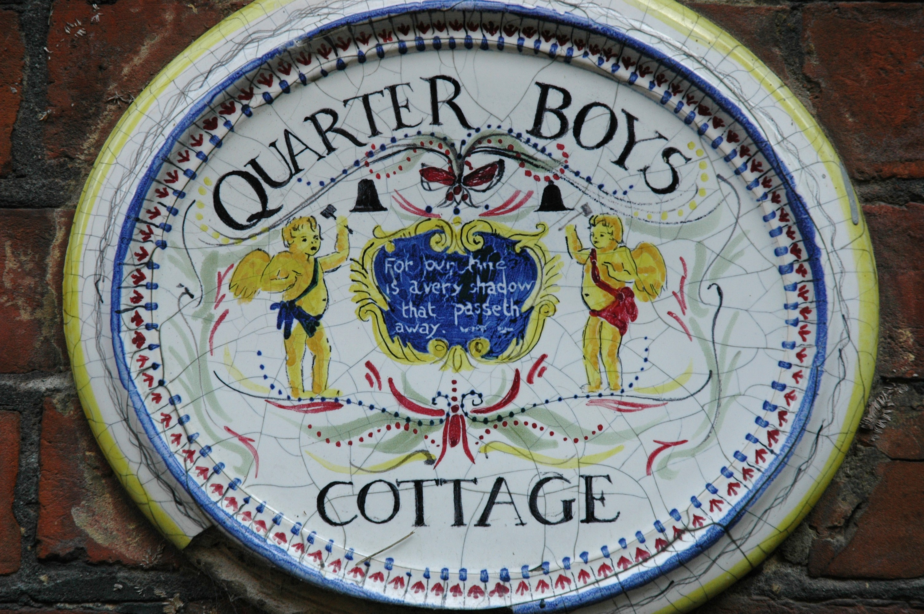 Rye - plat